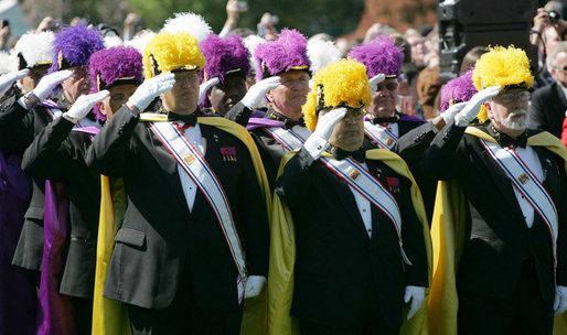 Members of the Knights of Columbus salute during the welcoming ceremony for Pope Benedict XVI, Wednesday, April 16, 2008, on the South Lawn of the White House.